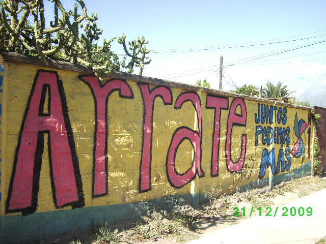 Politic graffiti of a candidate to president of Chile Jorge Arrate Mac Niven in 2009.